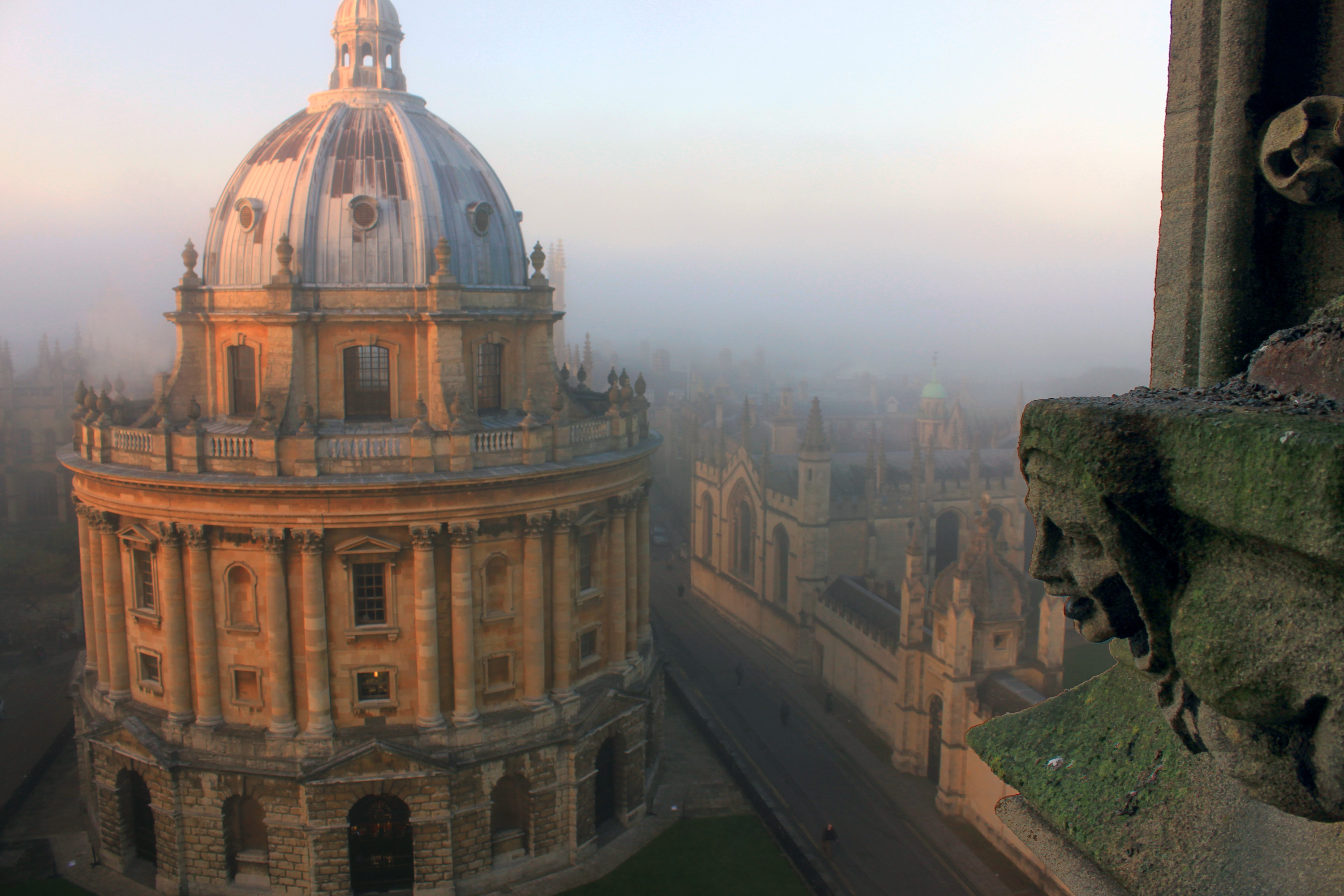 Radcliffe Camera, a part of Oxford University's Bodleian Library, and All Souls College to the right, in Radcliffe Square, looking north from the tower of St Mary's Church, the University Church, in central Oxford, England